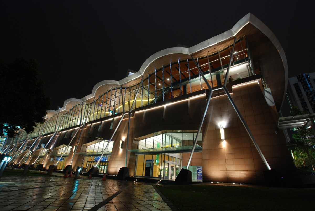 KL Convention Centre at night